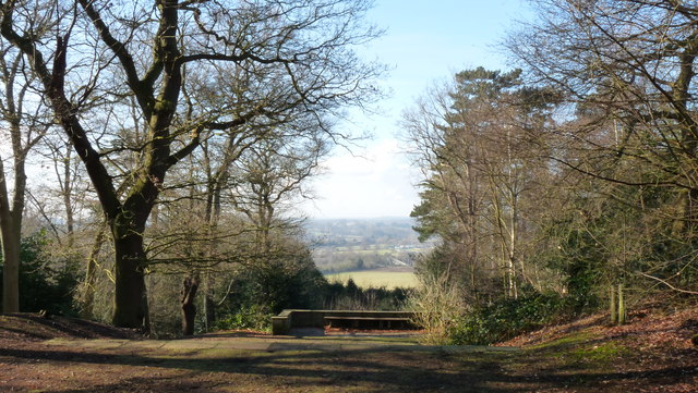 Trees on St.Ann's Hill View towards the West. I think that this makes a more interesting composition than the options available from the viewing position, seen towards the middle of the photograph.